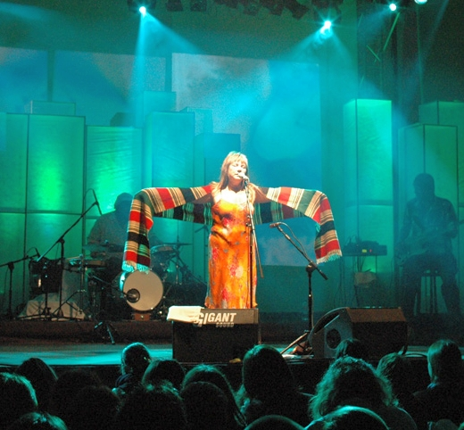 Mari Boine peforming in Warszawa, Poland in September 2007